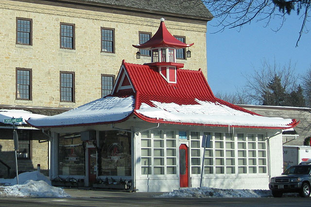 Former Wadham's pagoda in downtown Cedarburg, Wisconsin Category:Ozaukee County, Wisconsin Approximate coordinates: 43.29896N 87.987209W